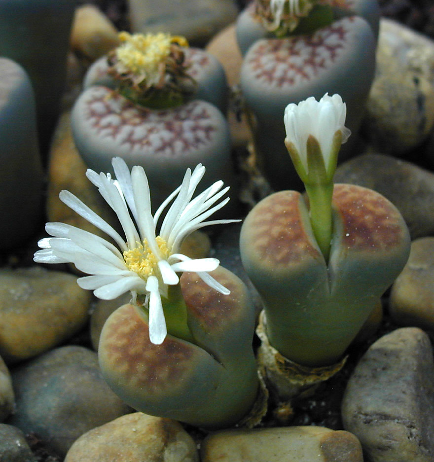 Living stone plant. Royal Botanical Gardens, Madrid, Spain.